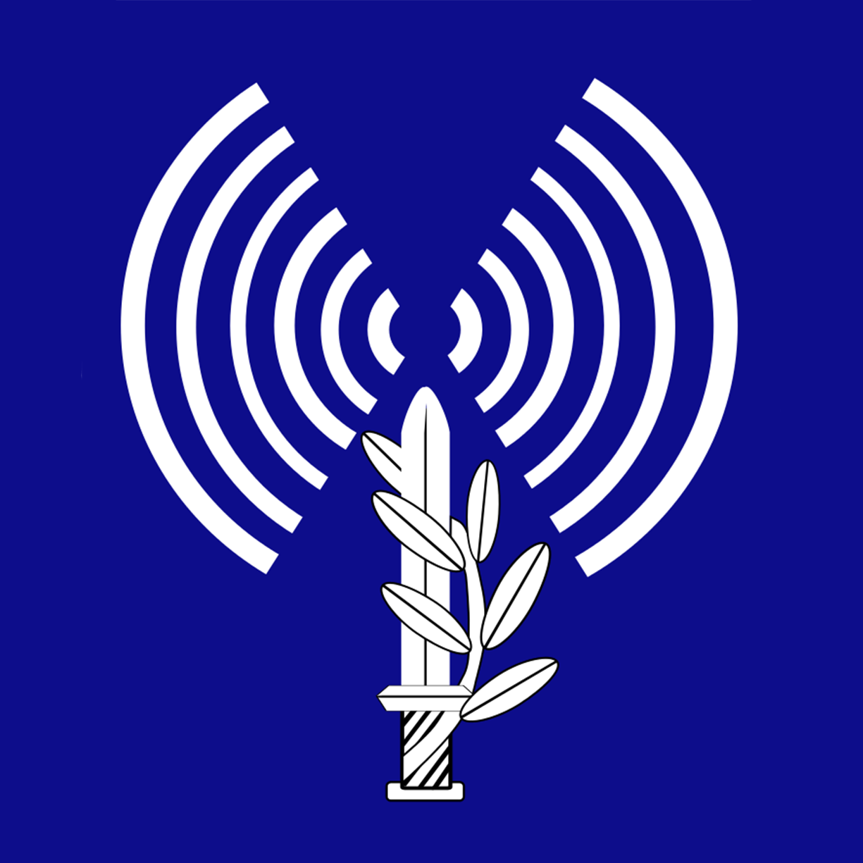 Dover Tsahal's logo